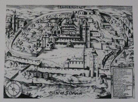 Kloster Seligenstadt 1638